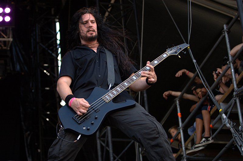 Sharlee D'Angelo of Arch Enemy performing at Wacken Open Air 2006.